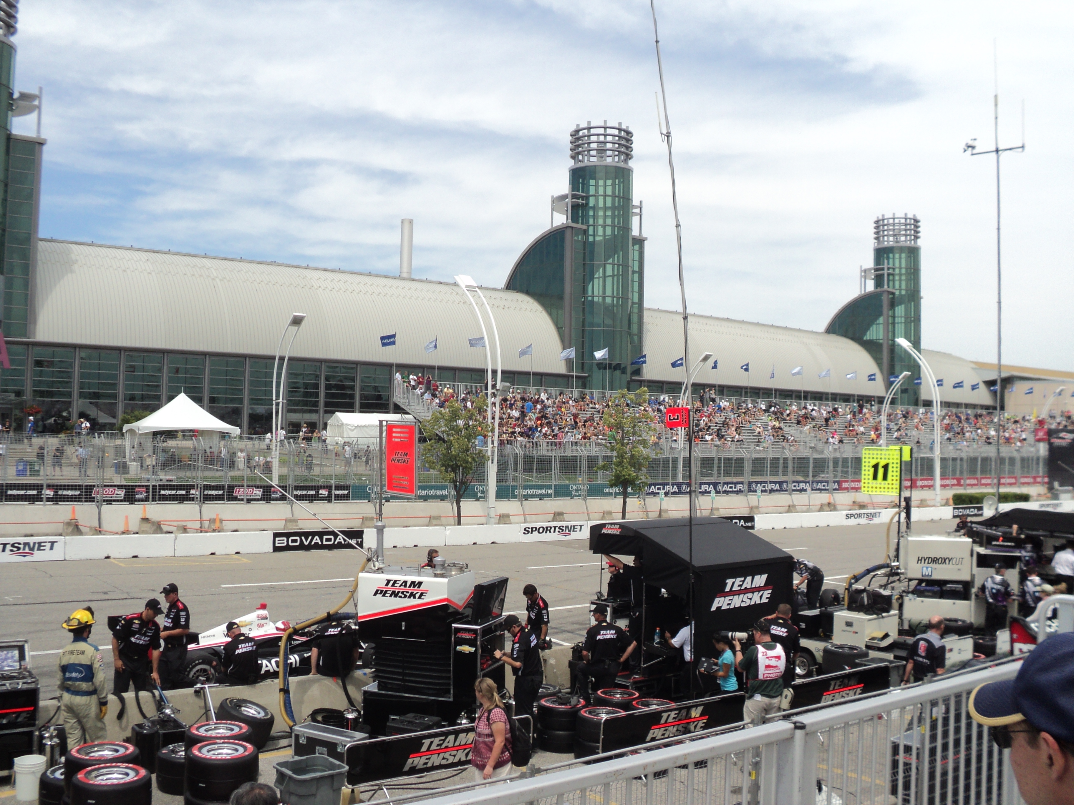 View of the Team Penske pits and the Direct Energy Centre at the 2013 Honda Indy Toronto.